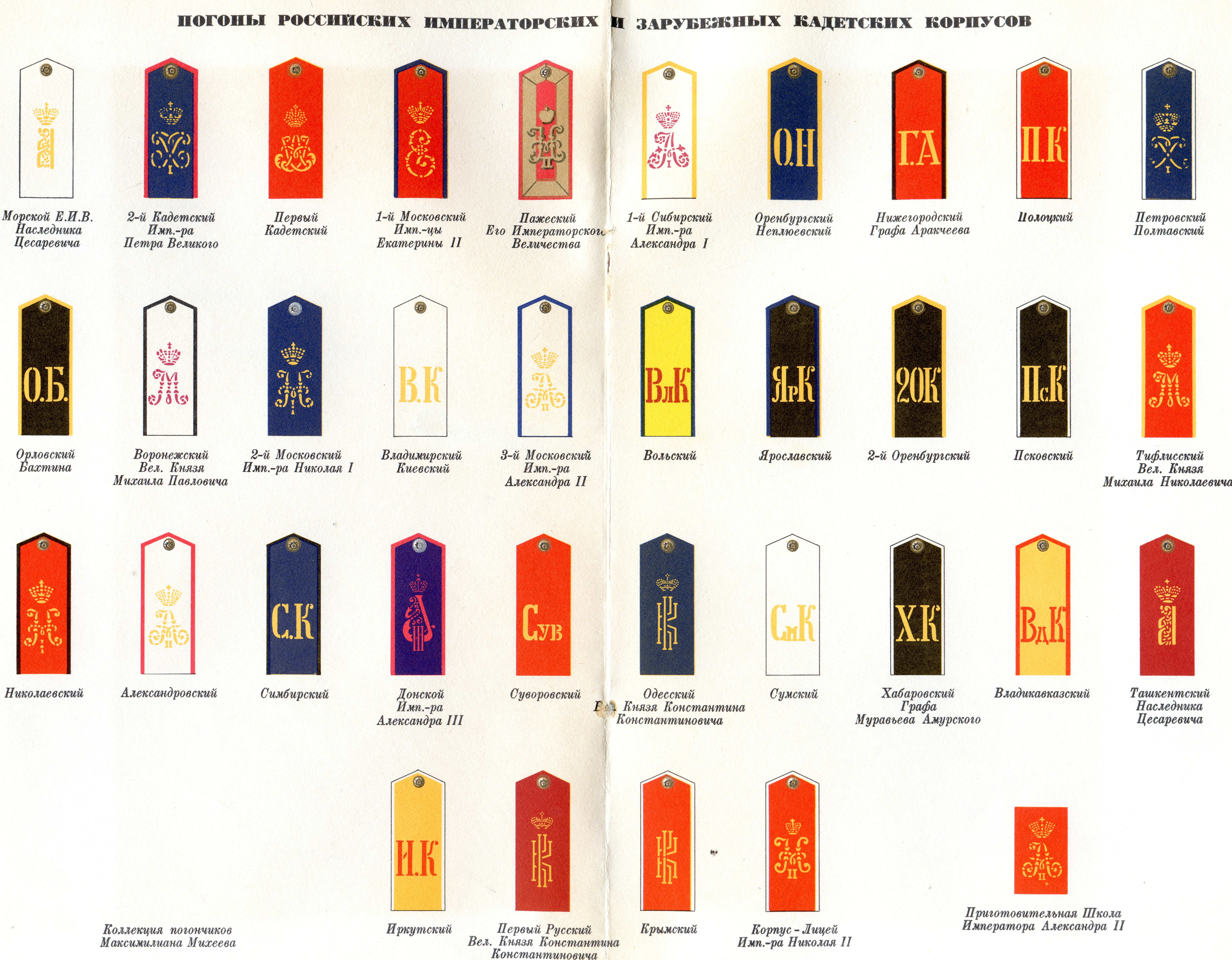 Epaulets of the Russian Imperial and foreign military schools